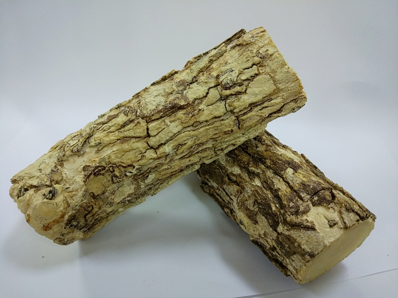 ThaNaKha